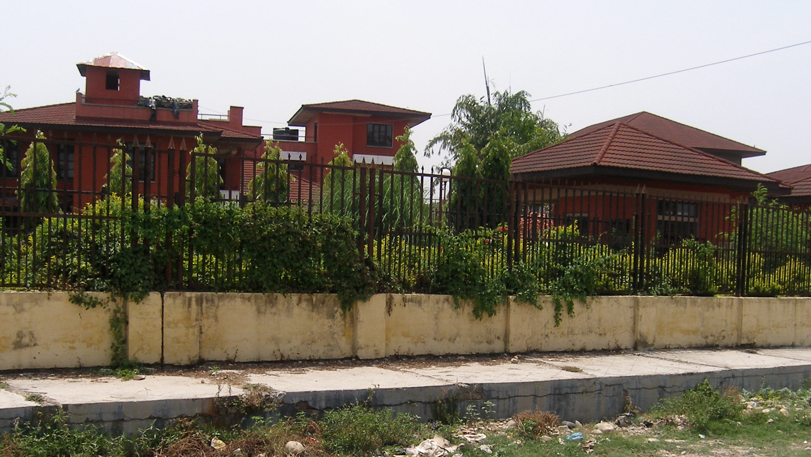 Buildings of the Nepal Rastra Bank, near Murali Chowk in Janakpur, Nepal